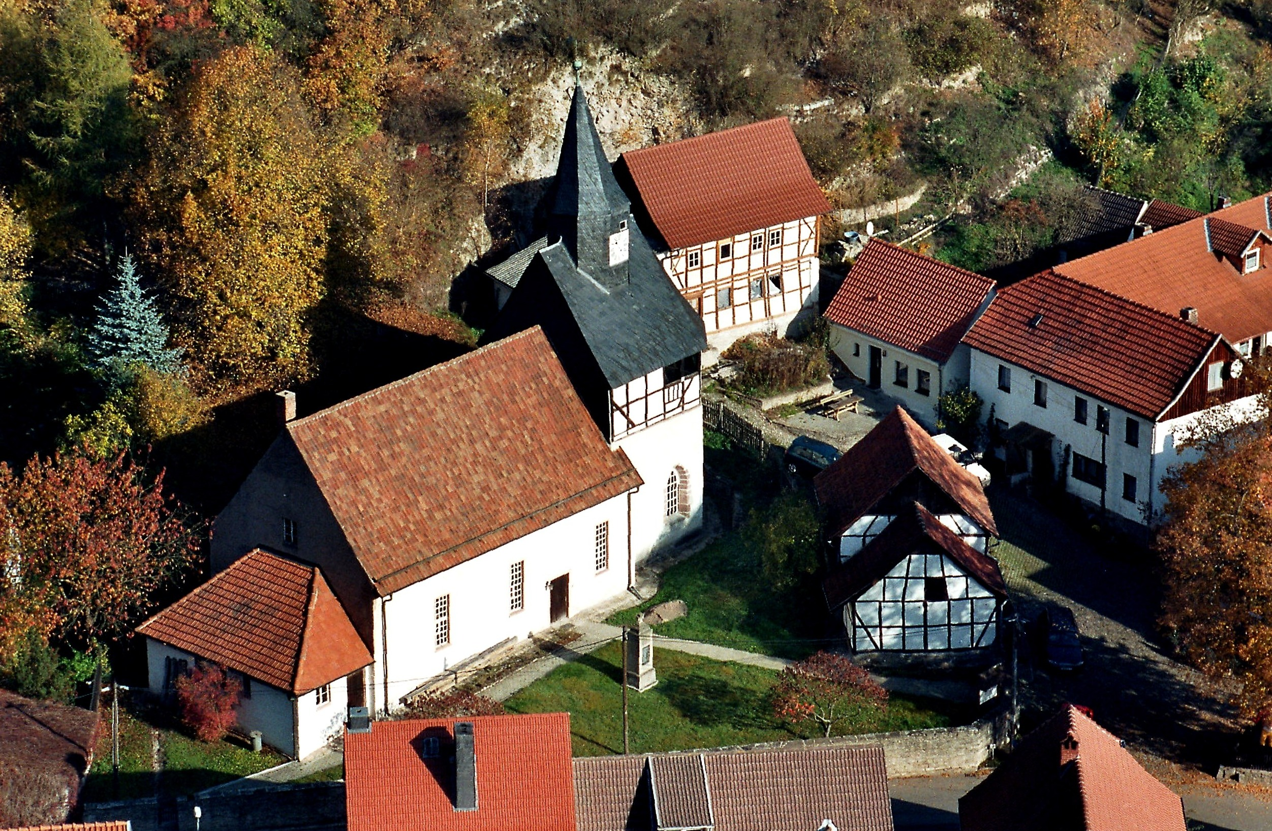 Questenberg (Südharz), view to the village church of the Nativity of the Virgin Mary